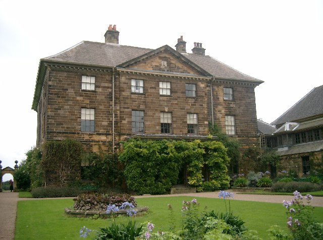 Ormesby Hall. Mid-18th-century Palladian mansion. Now a National Trust property with Regency and Victorian exhibits.